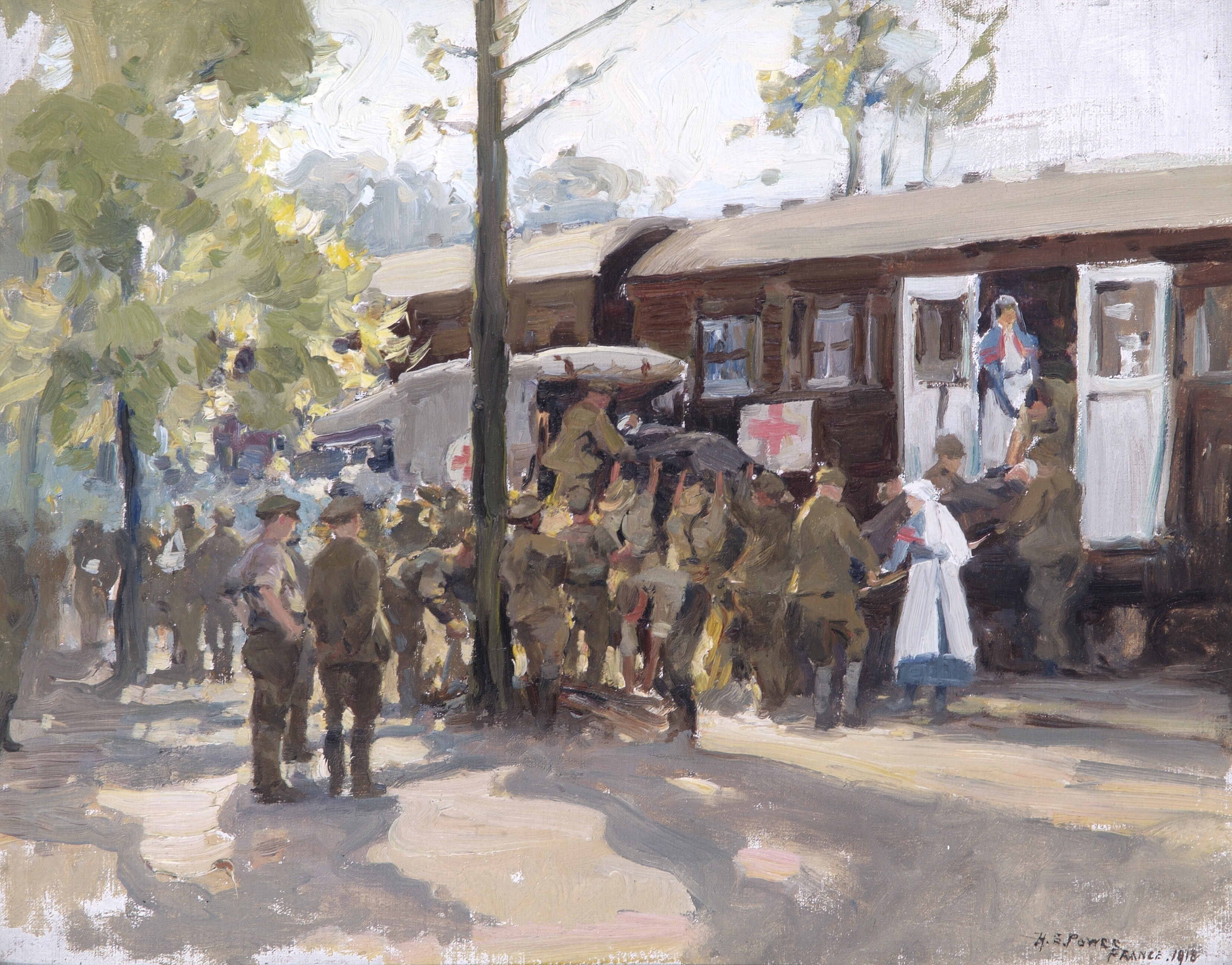 A Red Cross Train, France image: Wounded British soldiers are transferred from a motor ambulance to a Red Cross train, which is on a railway amongst trees. Orderlies and a QAIMNS nurse lift a stretcher onto the train, with another nurse looking on. Other British soldiers stand around watching the scene.